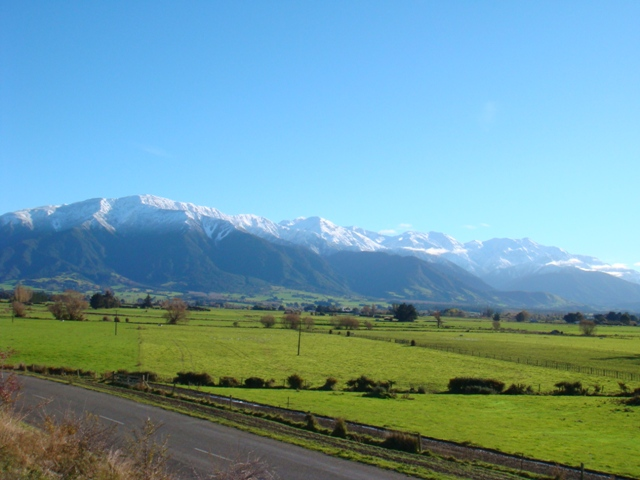 Countryside near Kaikoura, seen from the panoramic train.